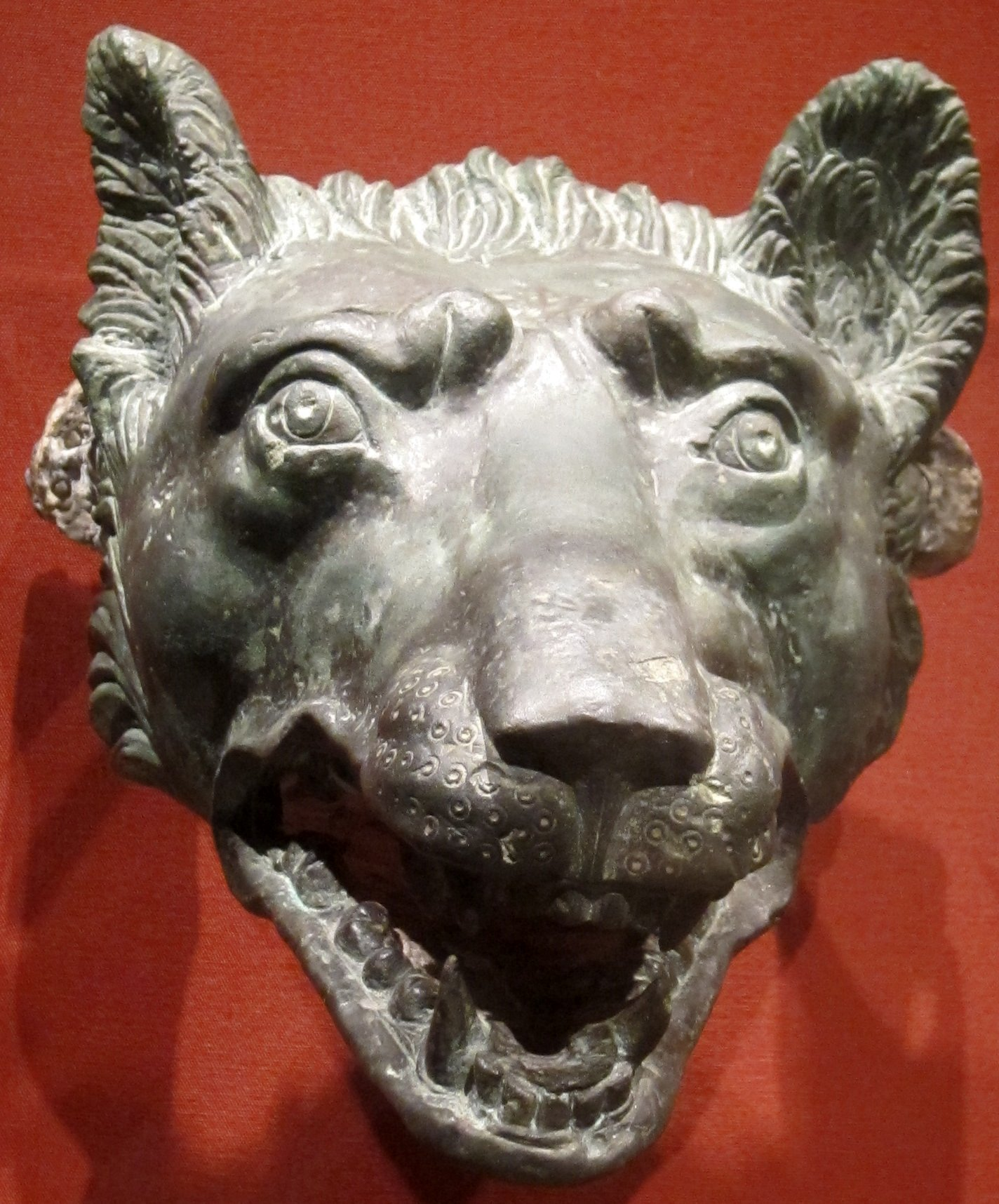 Wolf head, 1-100 CE, bronze, Roman, Cleveland Museum of Art